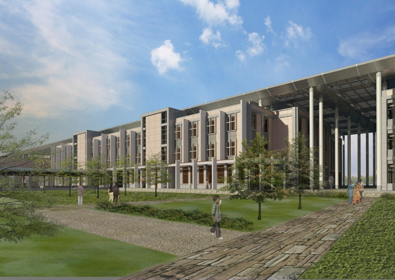 An artist's impression of how the Mohali campus would look like